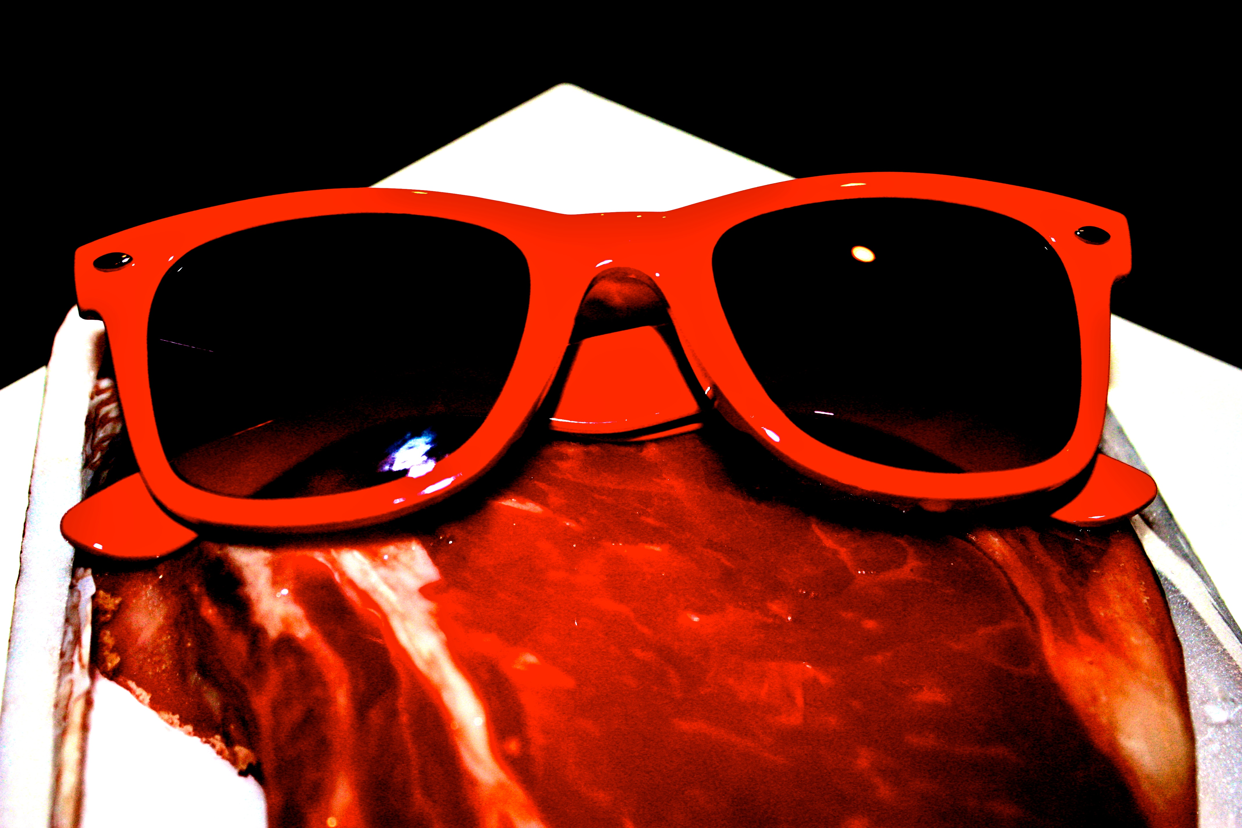 This image illustrates the commercial "Tony Snake - Avoid the Chainsaw" created and directed by Gian Franco Morini, picture taken April 15th 2010.